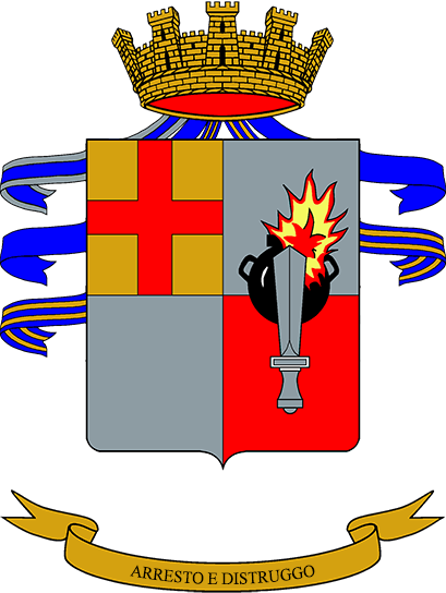 Coat of Arms of the 3° Engineer Regiment; Italian Army.